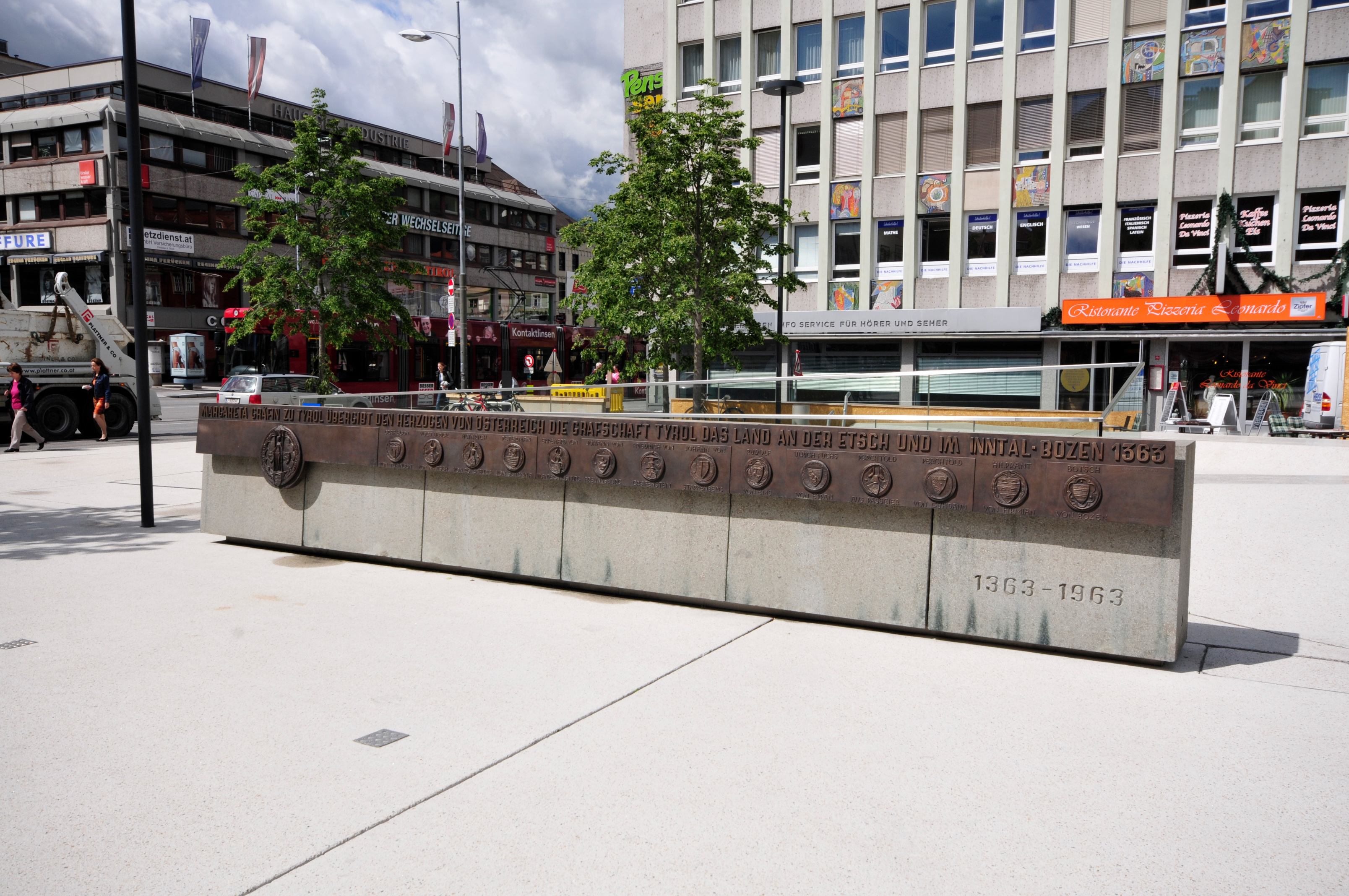 600 year anniversary of Tyrol being part of Austria 1363-1963. Innsbruck. Im Rahmen des Fußballländerspiels Österreich gegen Rumänien bin ich einige Stunden durch Innsbruck gefahren und habe Aufnahmen gemacht, die vielleicht mal gebraucht werden könnten. --Ralf Roleček 11:20, 10 June 2012 (UTC) The making of this work was supported by Wikimedia Austria. For other files made with the support of Wikimedia Austria, please see the category Supported by Wikimedia Österreich.